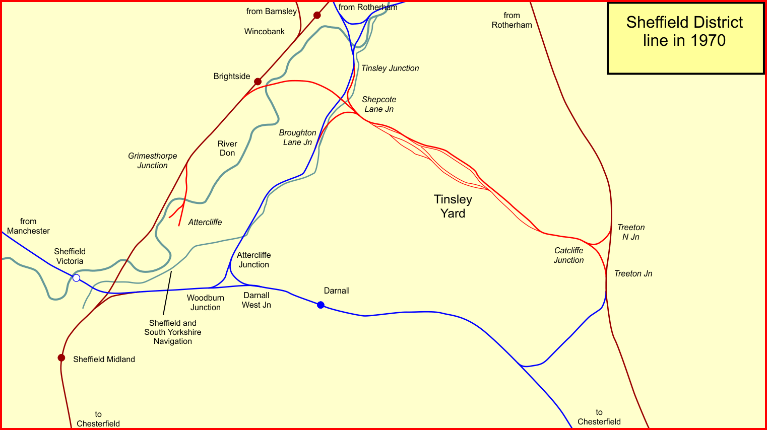 System map of the Sheffield District railway line in 1970 after construction of Tinsley marshalling yard